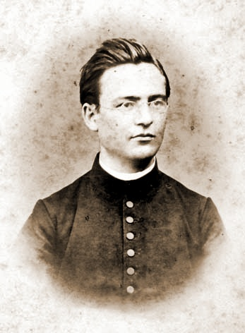 Jakob Reeb (1842-1917) katholischer Priester und bayerischer Landtagsabgeodneter